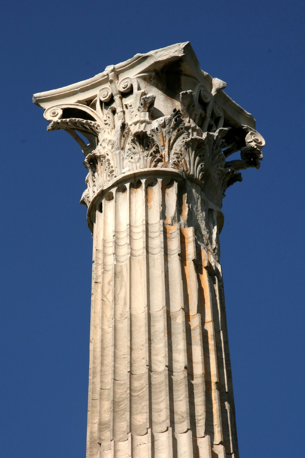 A column made in Corinthian style. This is one of the columns at the Temple of Olympian Zeus in Athens.